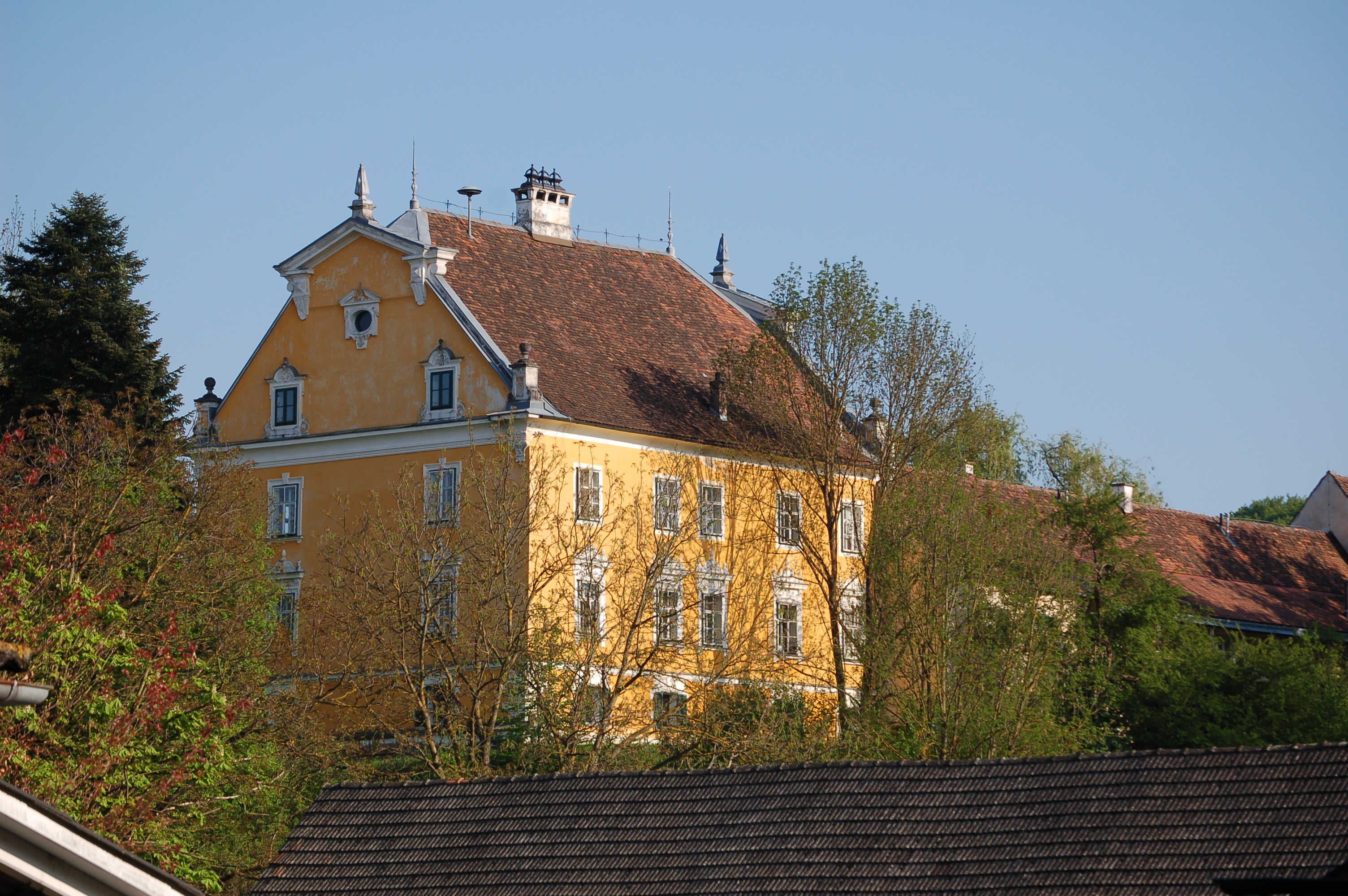 Gamlitz castle, Styria